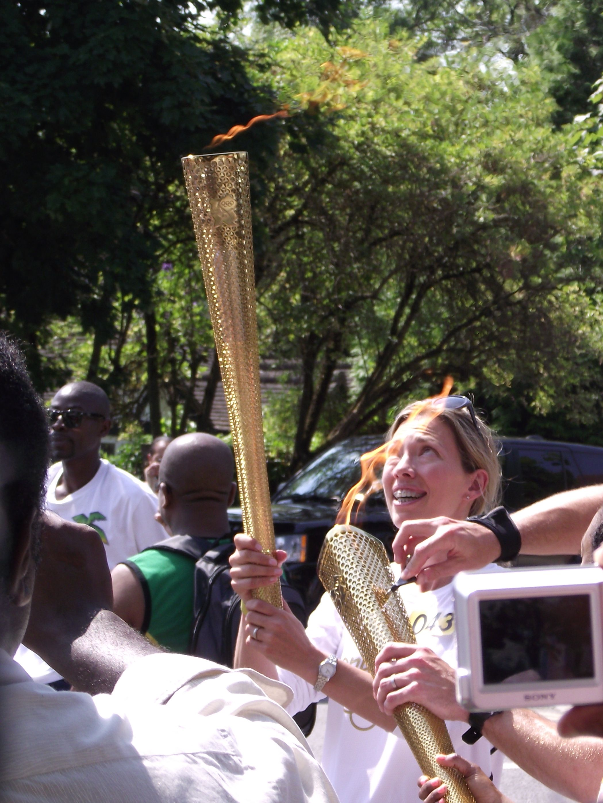 Cross-country skiing Olympic gold medalist Beckie Scott is handed the Olympic torch during the relay for the 2012 Summer Olympics in Brent, North West London.